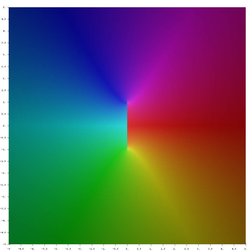 function ArcCot[z] in the complex plane